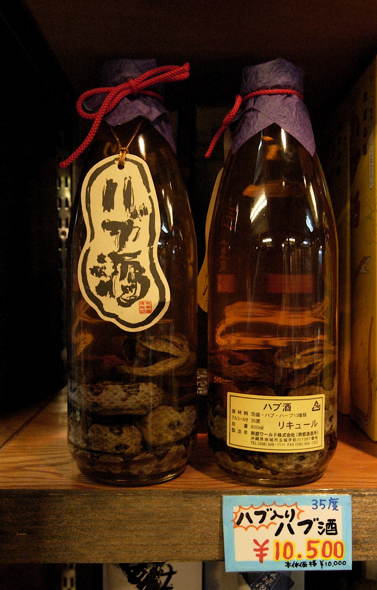 Awamori flavoured with Habu, Habu shu (Habu liqueur)